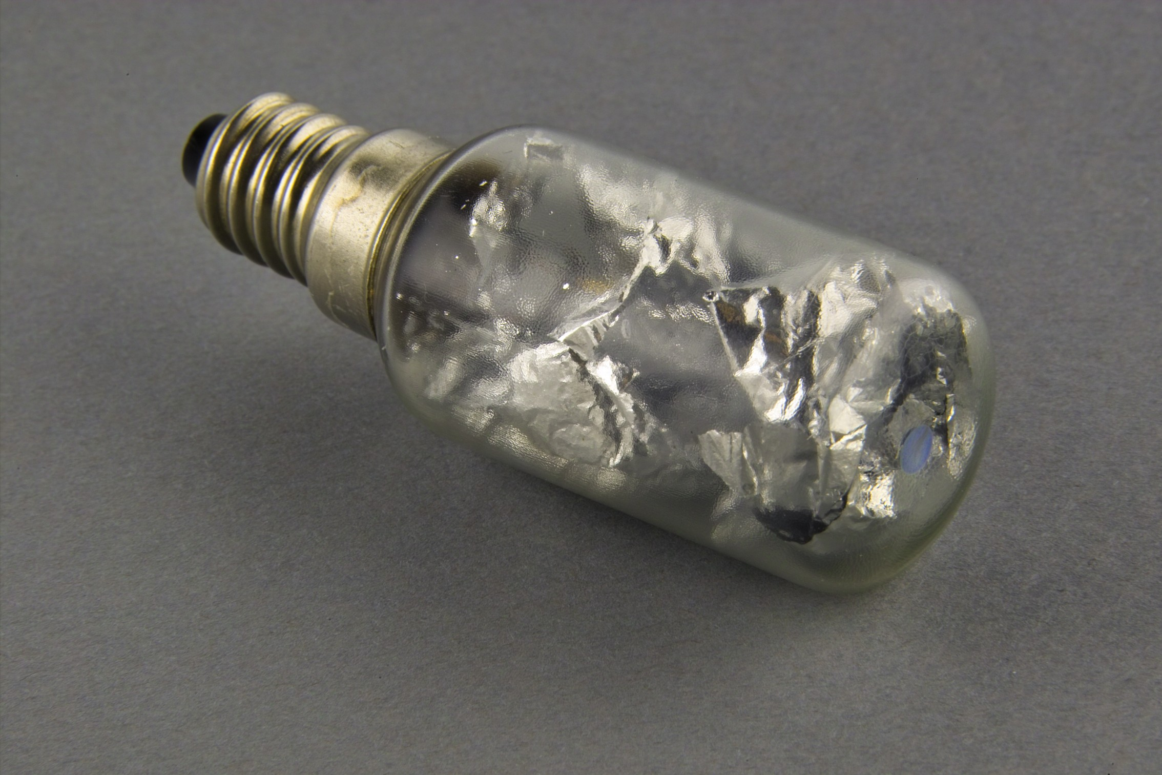 Flash bulb containing magnesium foil, of unknown origin.